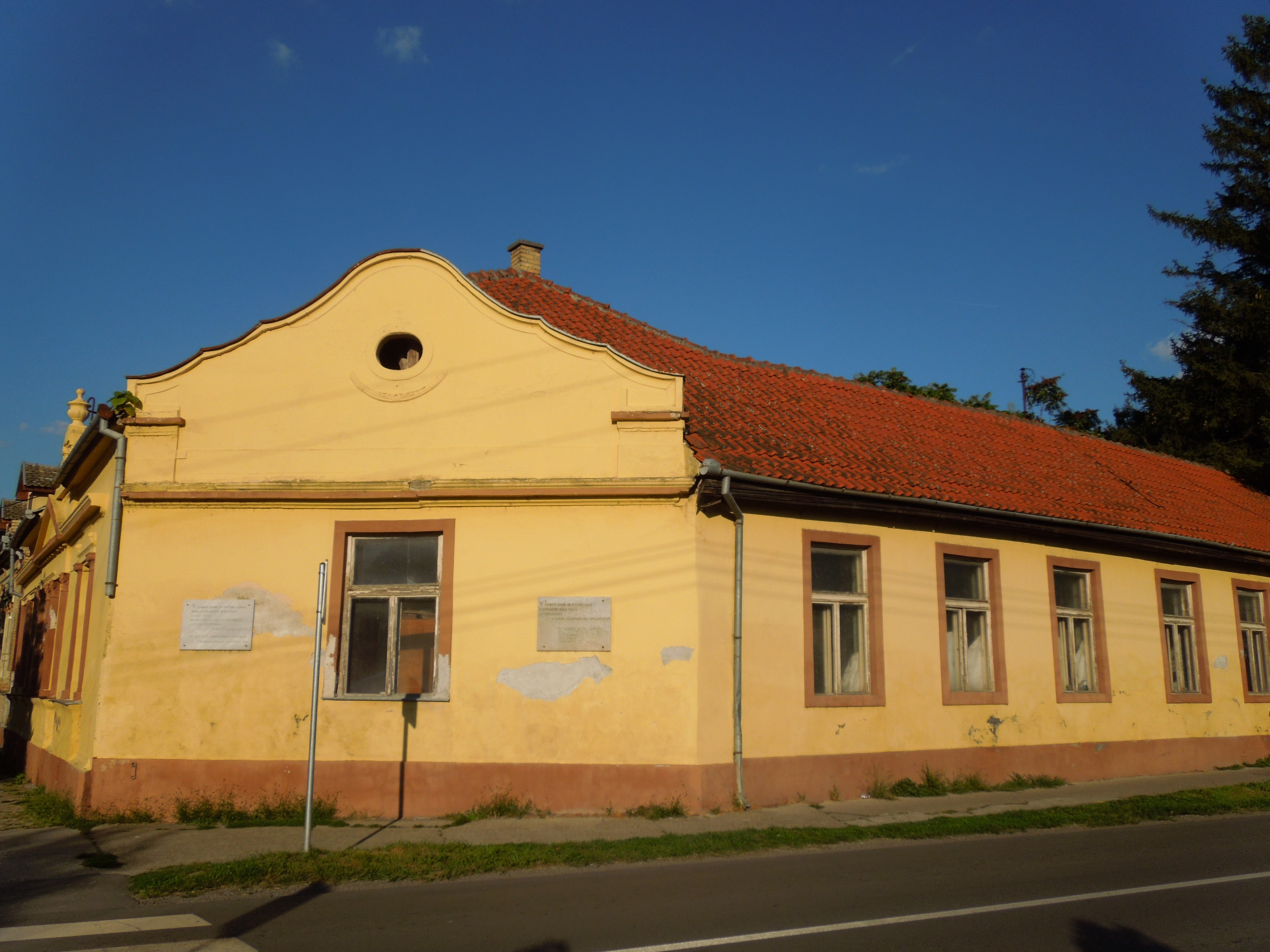 A house in Bački Petrovac where on the 28th of August 1919 the Publishing House was officially opened and where on the 19th of October 1944 the first issue of "Hlas l'udu" was printed. Srpski (latinica): Kuća u Bačkom Petrovcu u kojoj je 28. avgusta 1919. godine zvanično otvoreno аkcionarsko društvo Štamparija i u kojoj je 19. oktobra 1944. godine štampan prvi broj novina "Hlas l'udu".